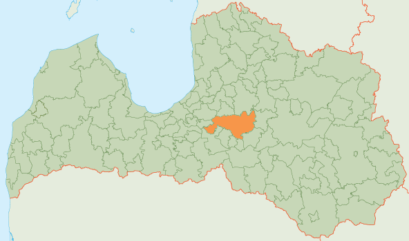 Map of Ogre municipality, Latvia